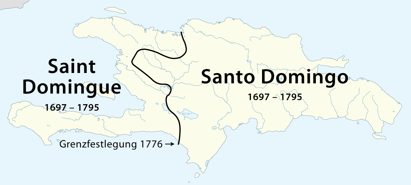 History of the teritorial changes of Hispaniola